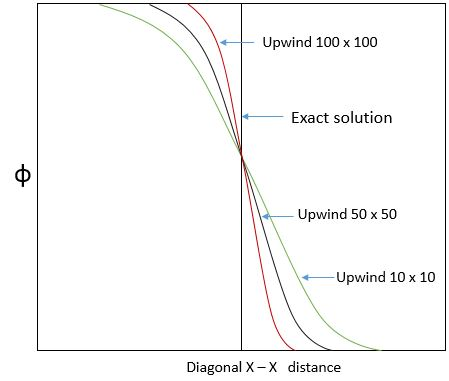 This plot describes the variation of the false diffusion in the Upwind Differencing Scheme with the grid size of the mesh